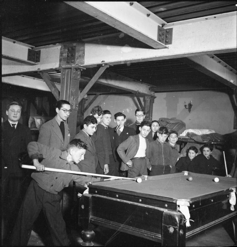 London Jews in Wartime- the work of Youth Clubs in Stepney, London, 1942 This air raid shelter, erected by Stepney Borough Council, is used by boys of the Bernhard Baron Settlement boys' club on Berner Street, Commercial Road, East London, as a recreation room, as can be seen by the game of billiards in progress. The boys using the room are aged between 13 and 18. Holding the cue is Joe Gold, aged 13, who is from Stepney. He has an older brother in the Royal Navy.